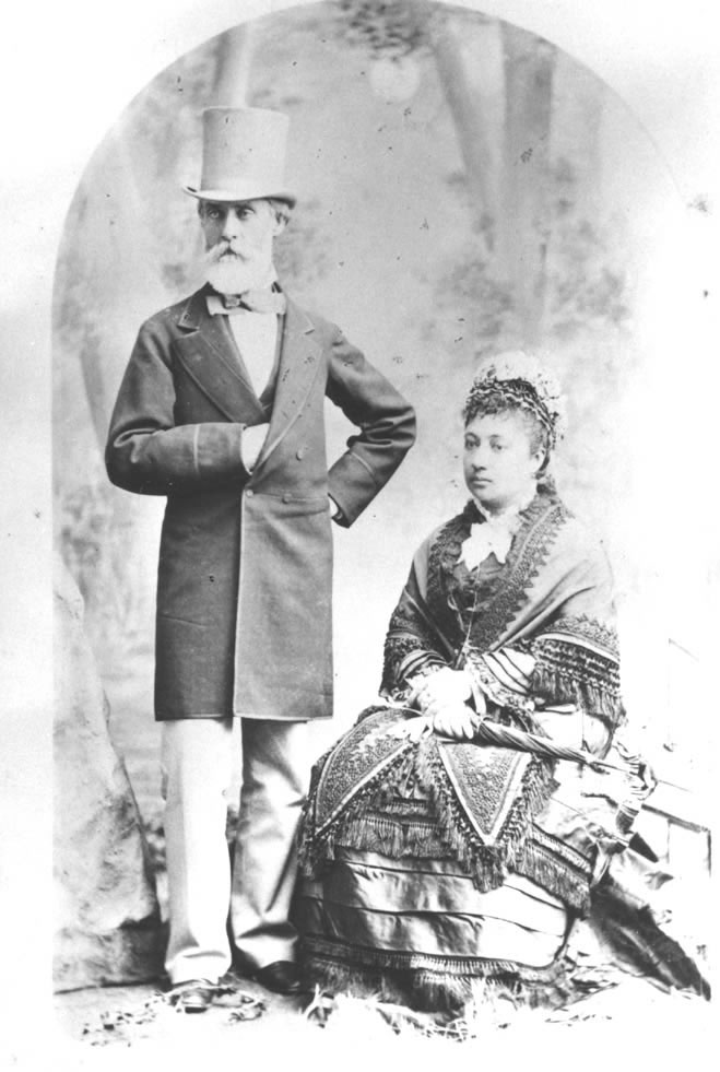 Charles Reed Bishop and his wife Bernice Pauahi Bishop in San Francisco in 1875.